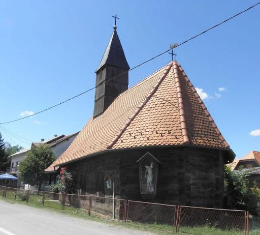 Church in Letovanić